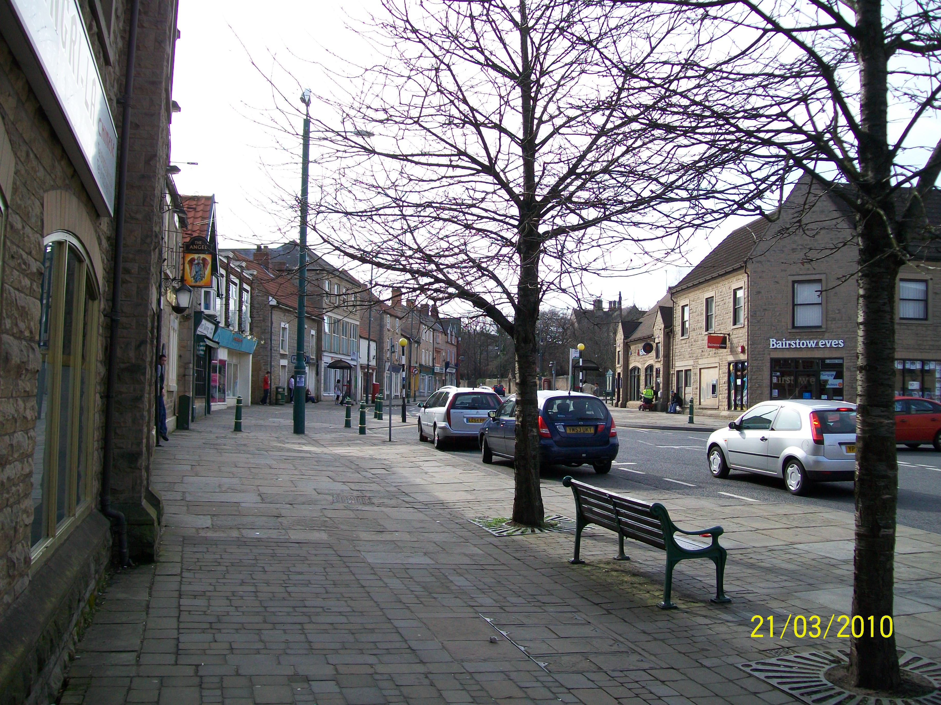 Mansfield Woodhouse High Street 21st March 2010 looking westward from just behind The Angel.